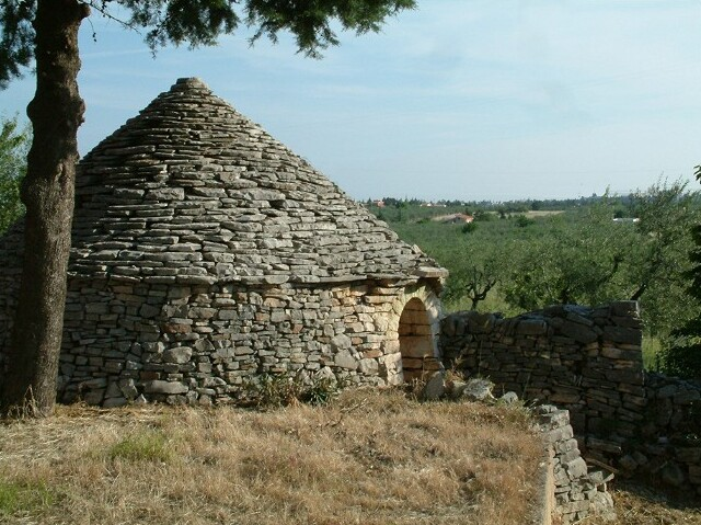 Modern trullo, see entrance arch. Trulli are typical of Apulia, Italy.